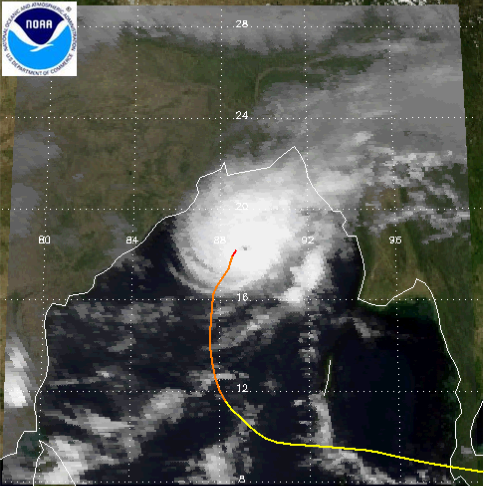 Satellite image of Cyclone Forrest near peak intensity on November 20, 1992